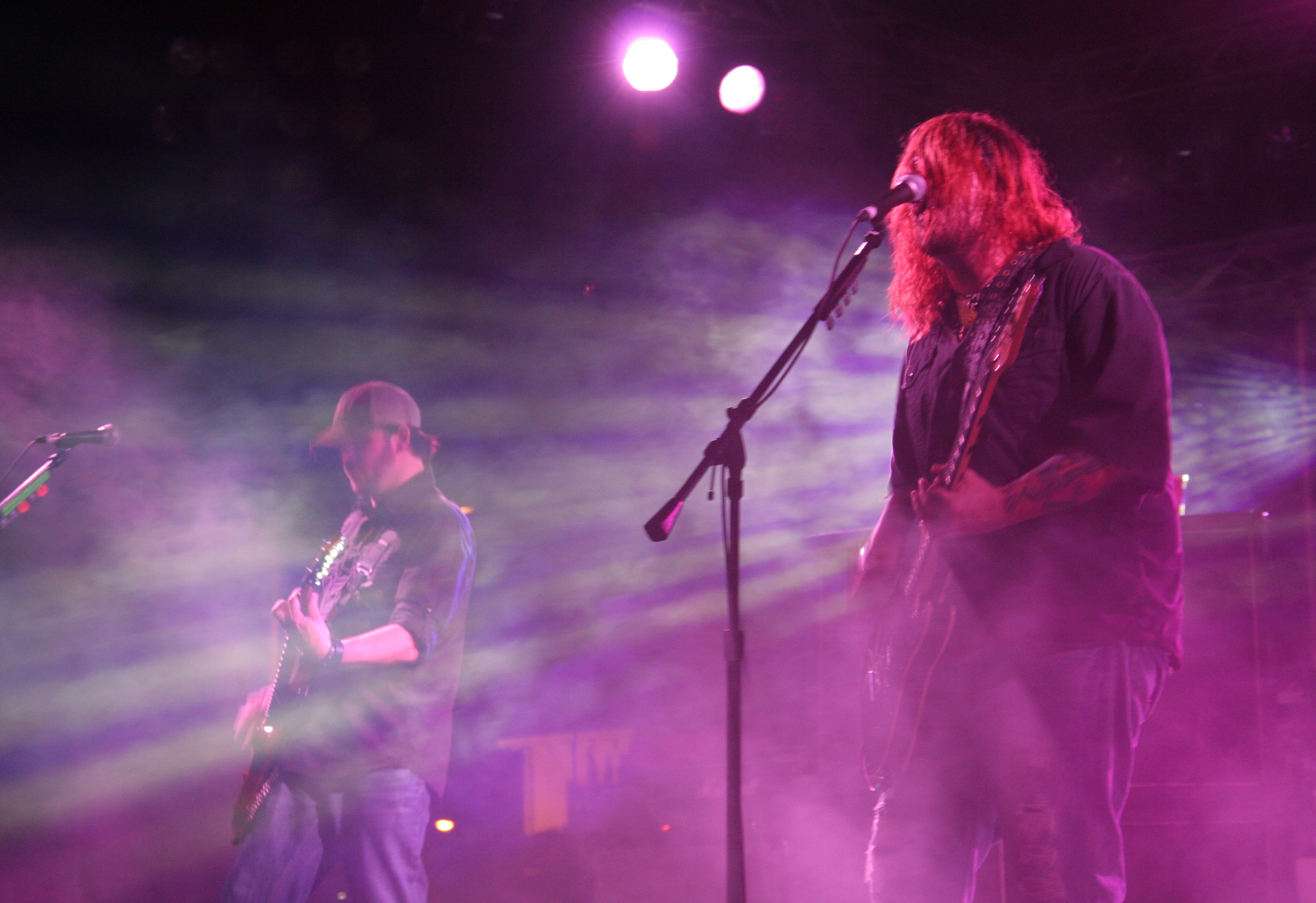 Lead singer Shaun Welgemoed and lead guitarist Troy McLawhorn rock out to their favorite song “Out of My Way” during a performance held at the Marine Corps Air Station Iwakuni in May 26.